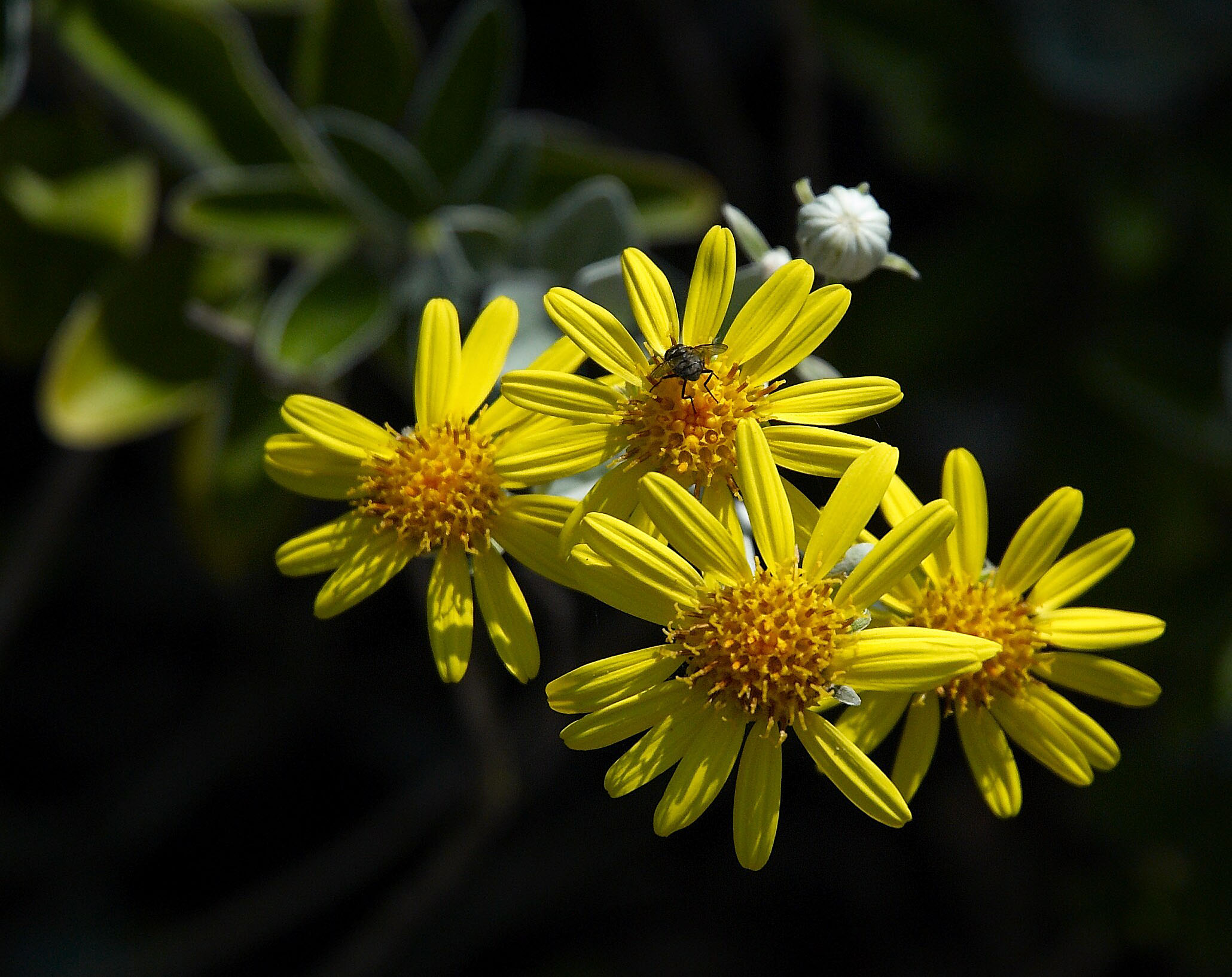 Brachyglottis Dunedin-hybrid 'Sunshine'